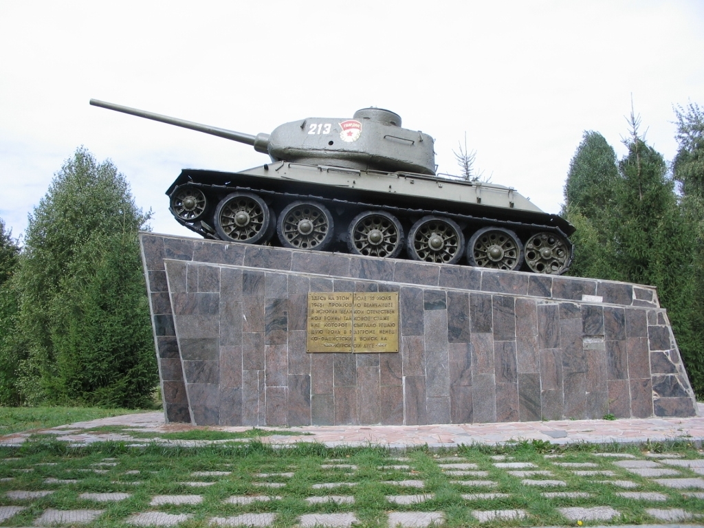 The tank battlefield